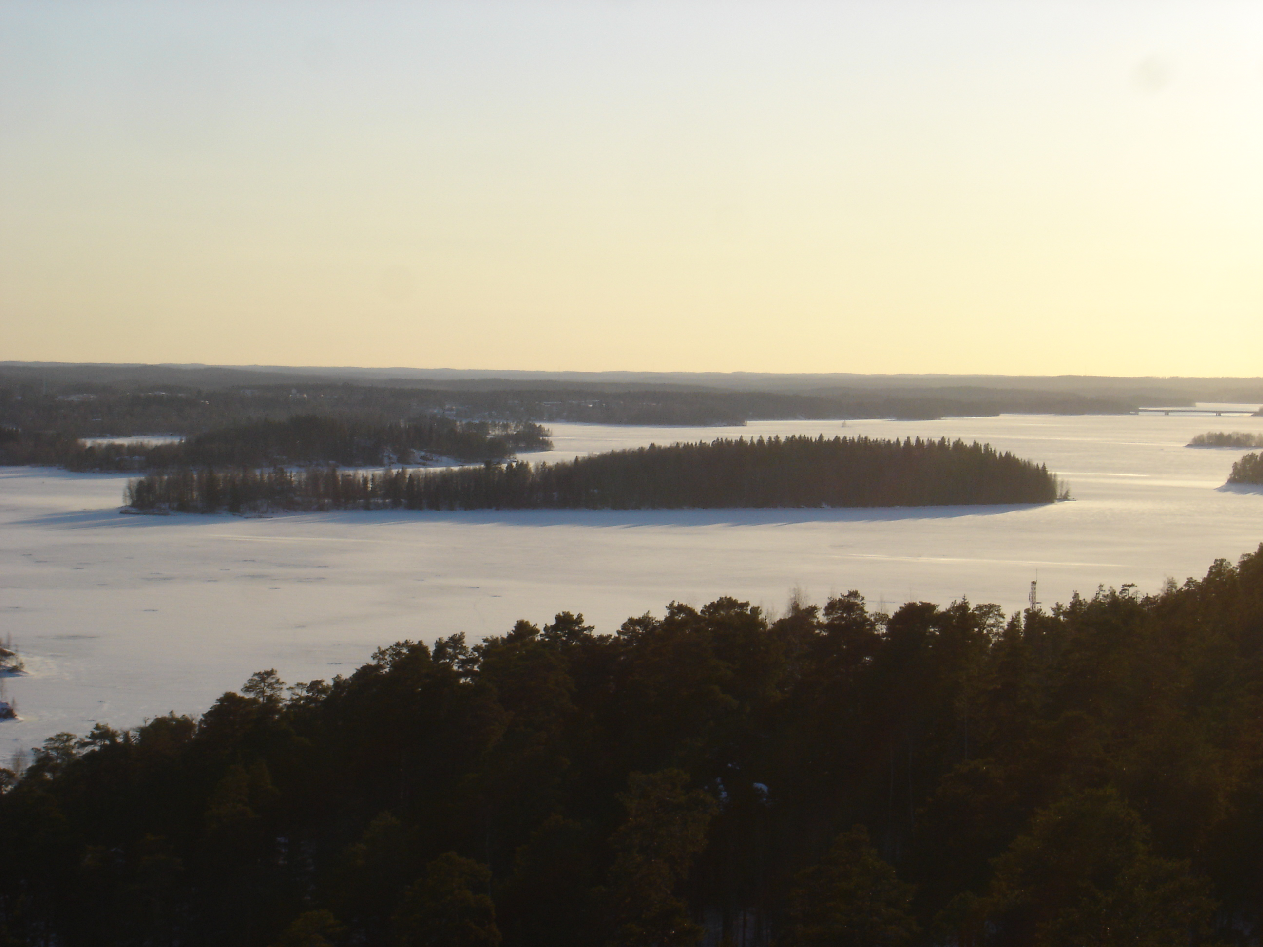 Viikinsaari island in Pyhäjärvi near Tampere. Photo taken from Pyynikki observation tower.